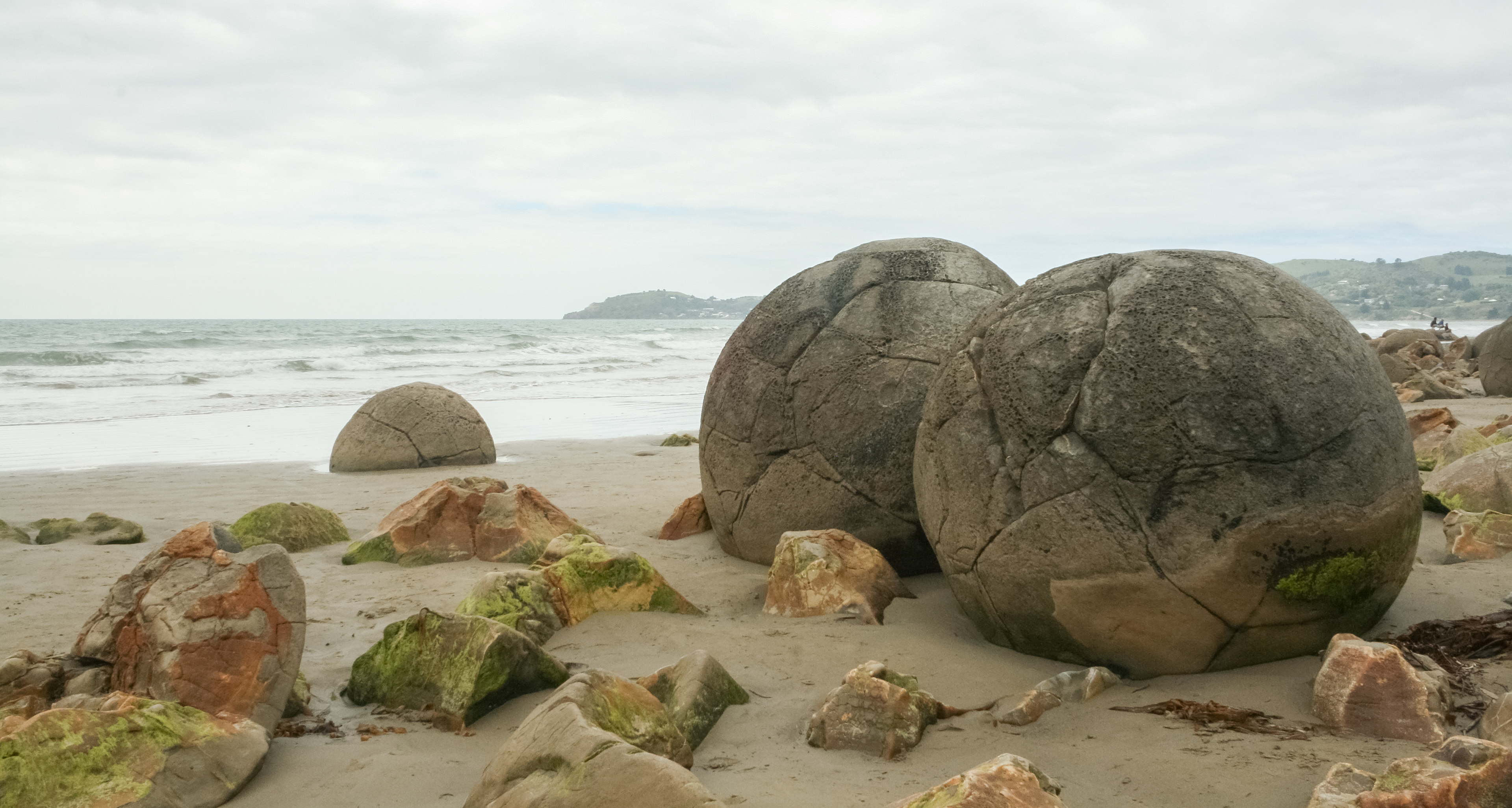 Moeraki Boulders, New Zealand